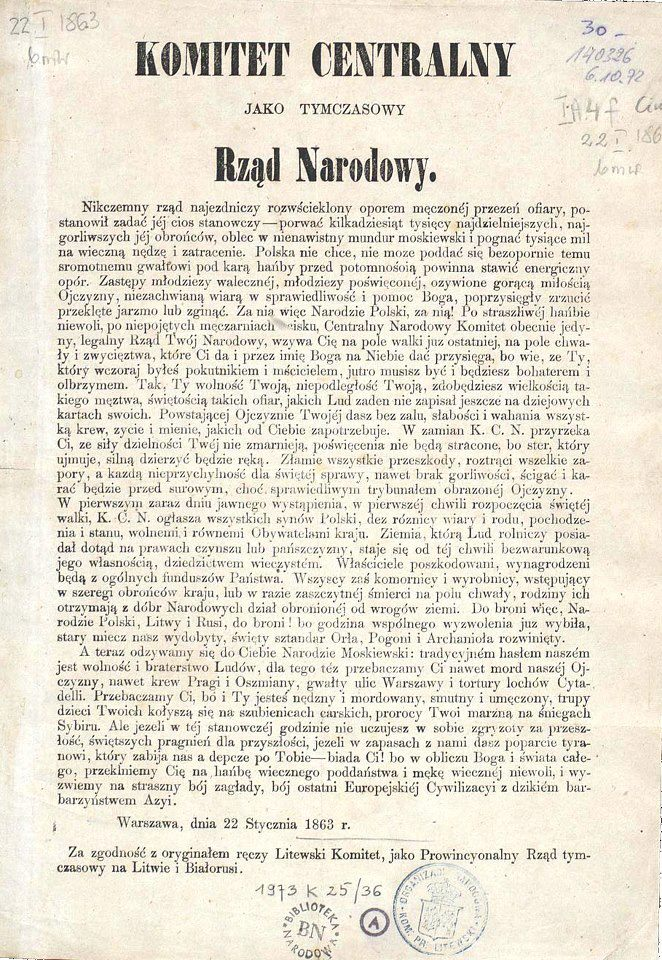 Declaration of Polish National Government (January Uprising) for the January Uprising. Official document.